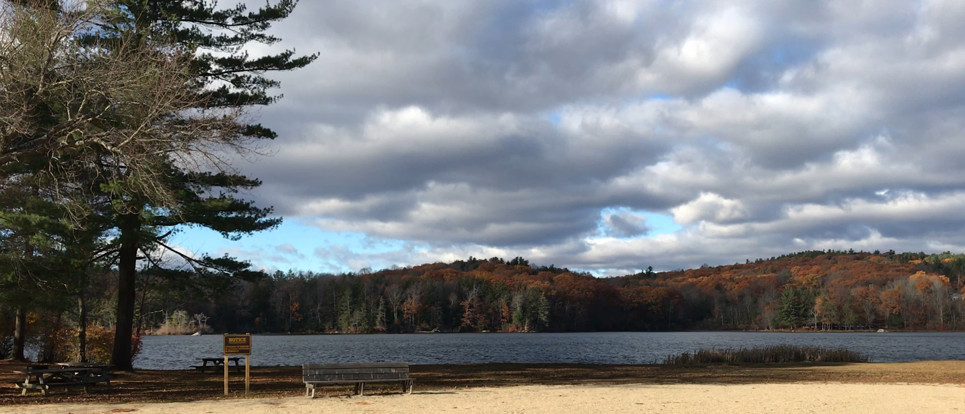 Paugnut State Forest's hills in autumn viewed from the north-east shore of Burr Pond.